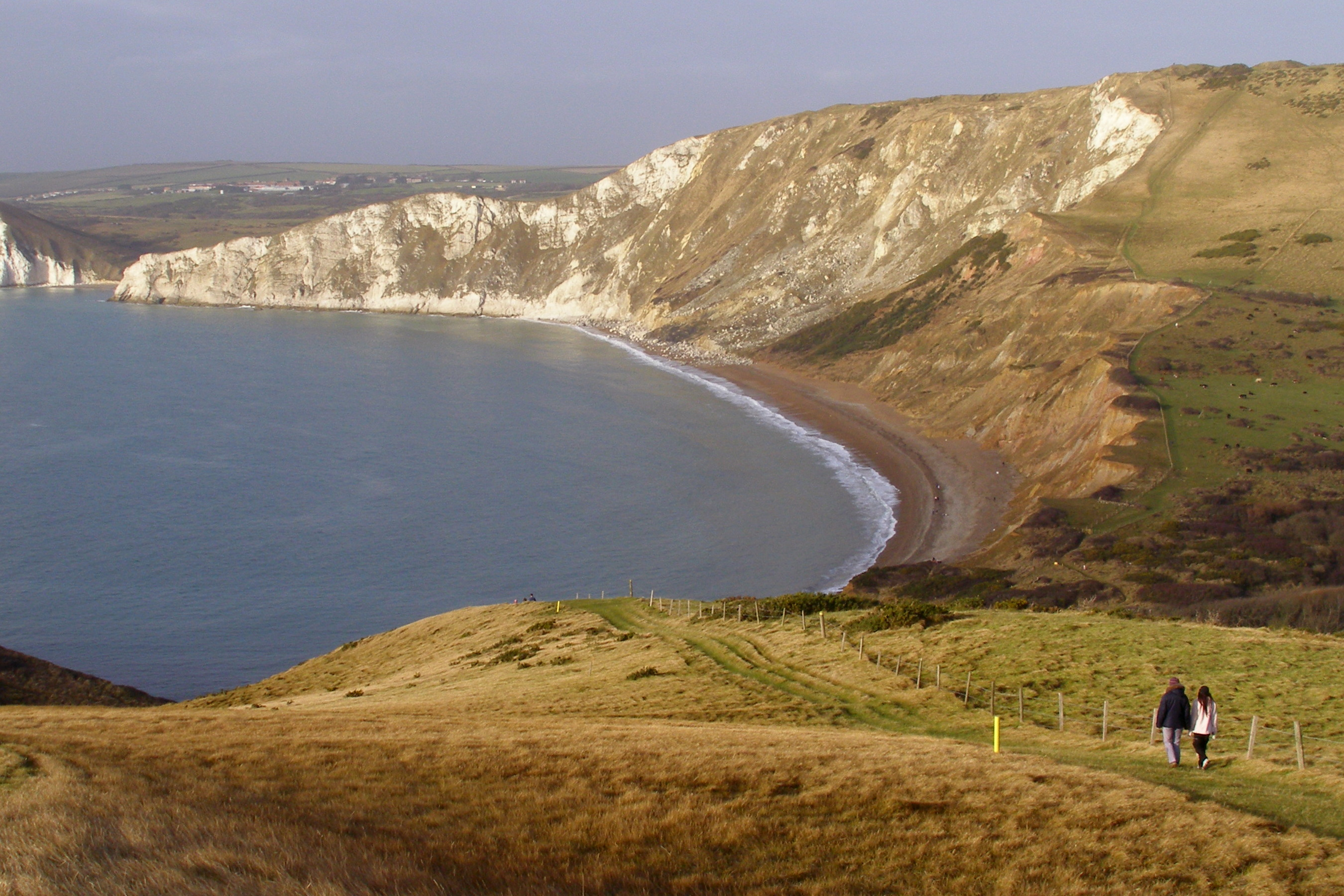 Arish Mell to Rings Hill in the background, with Worbarrow Bay below. Isle of Purbeck, Dorset, U.K.